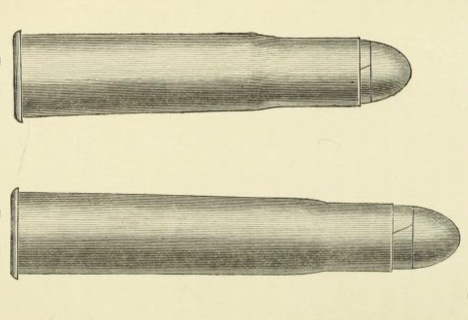 .577/500 No 2 Black Powder Express 2¾ inch and 3⅛ inch cartridges